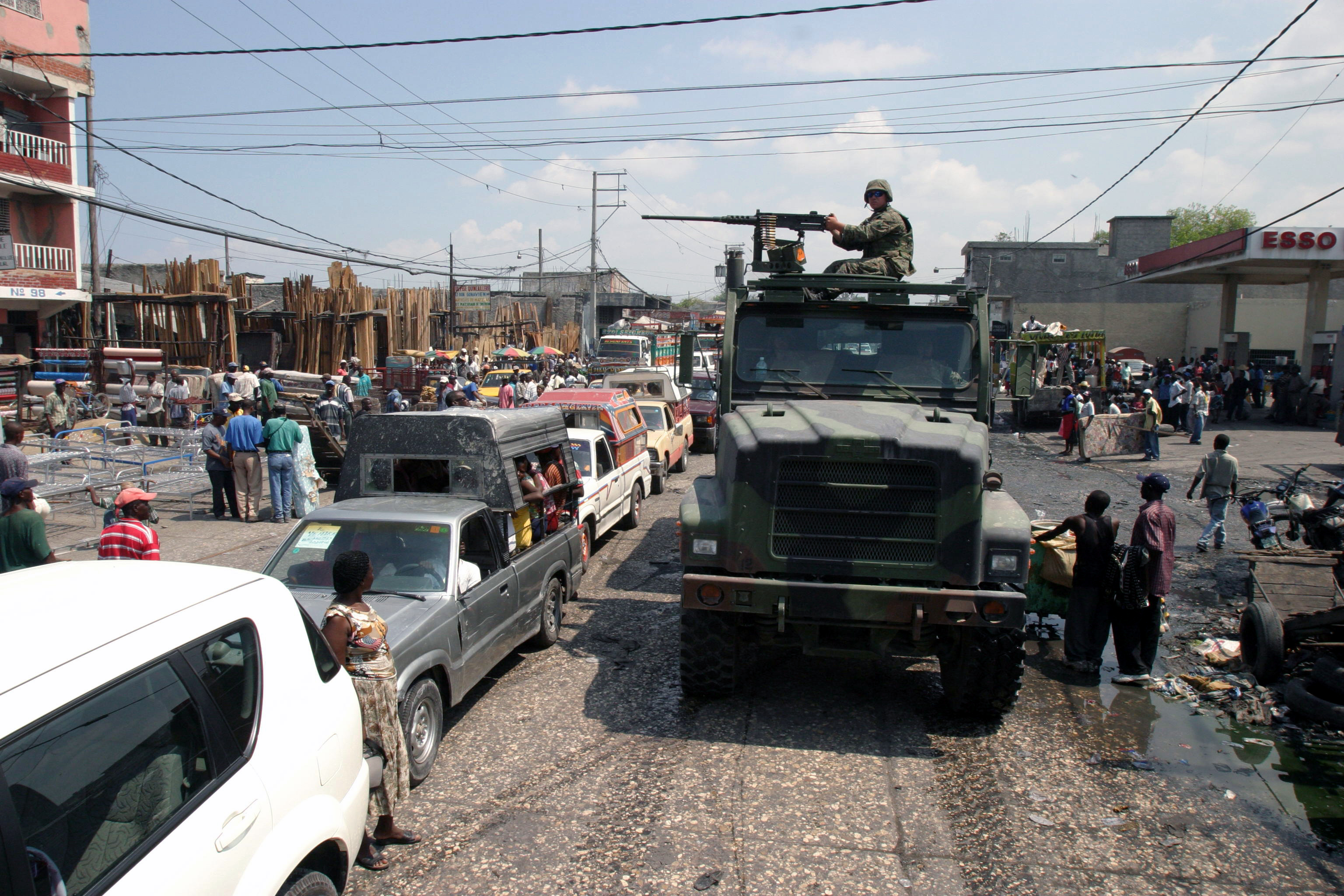 Port-Au Prince, Haiti (Apr. 5, 2004) - A 7-ton vehicle, part of a convoy carrying U.S. Marines assigned to 3/8 Kilo Company, makes its way through congested traffic and piles of debris in Port-Au Prince, the capital city of Haiti. U.S. Marine Corps photo by Cpl Eric Ely. (RELEASED)